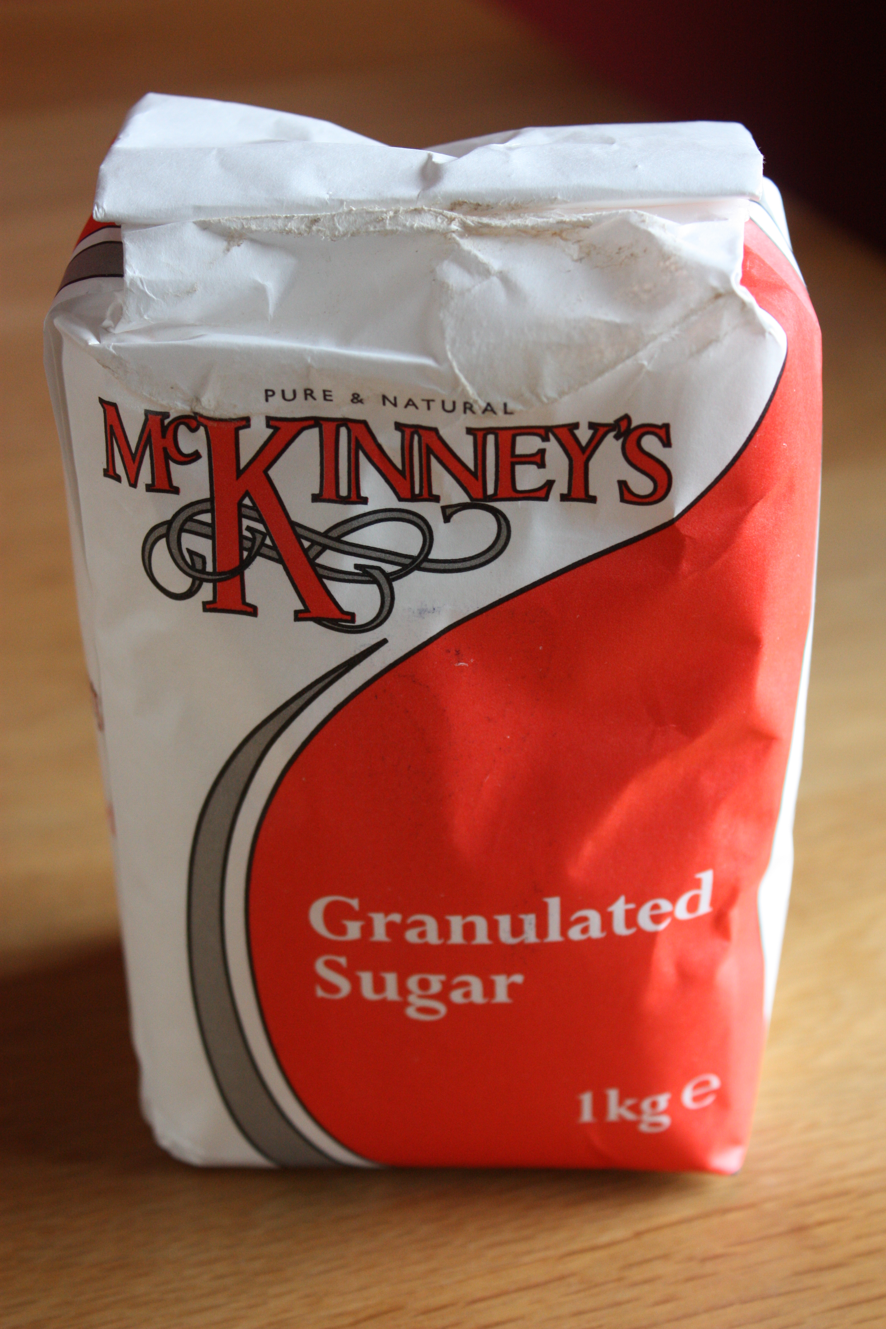 Bag of sugar, Downpatrick, County Down, Northern Ireland, September 2010